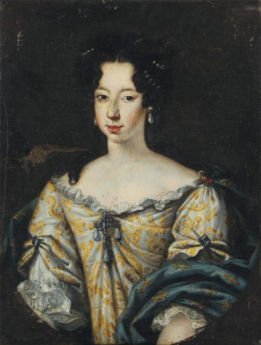 Portrait of Anne Marie d'Orléans (1669-1728), duchess of Savoy and grandmother of Louis XV